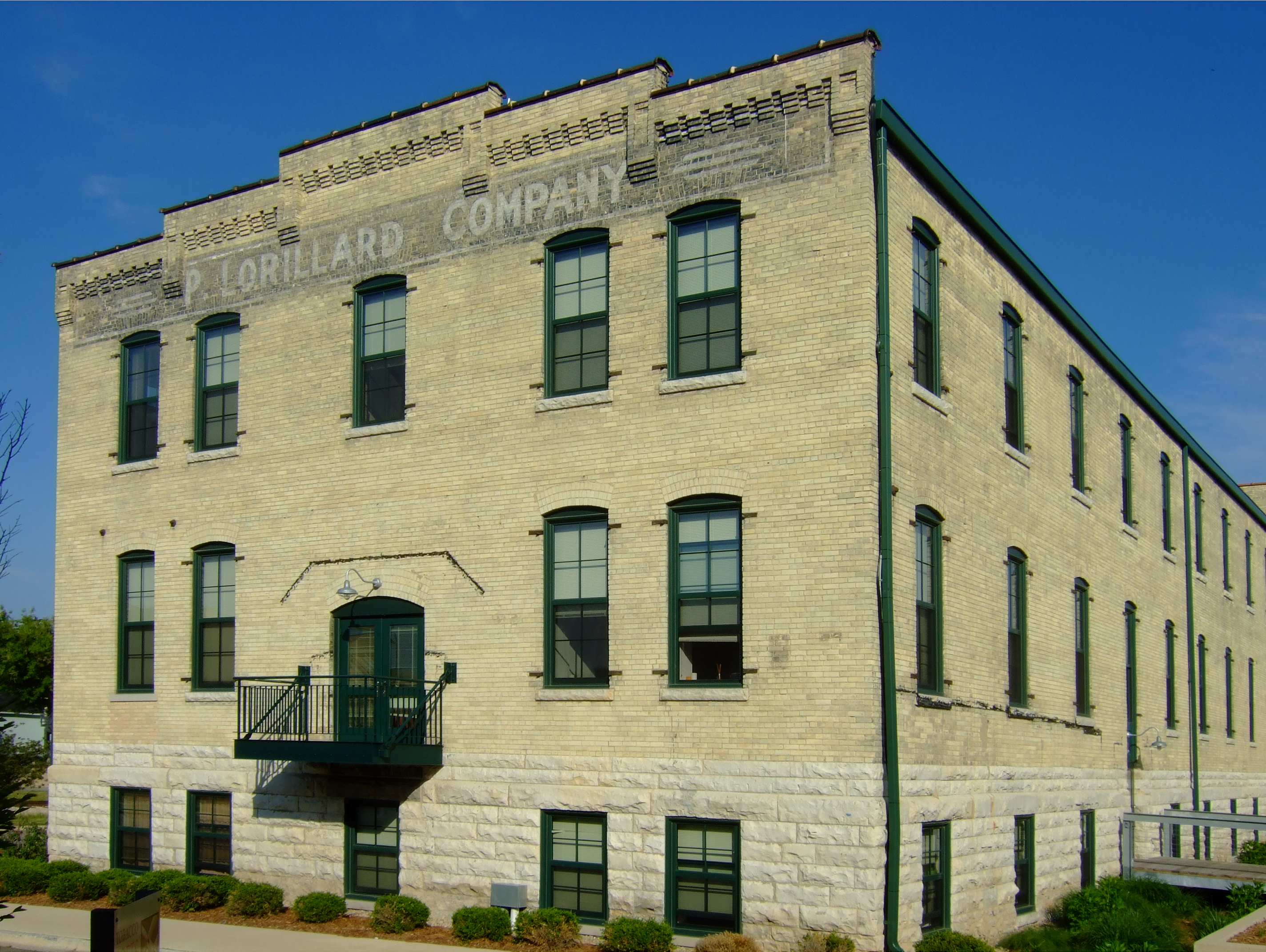 American Tobacco Company Warehouses complex in Madison, Wisconsin, designed by Claude and Starck in a utilitarian-industrial style. Added to the National Register of Historic Places in 2003.